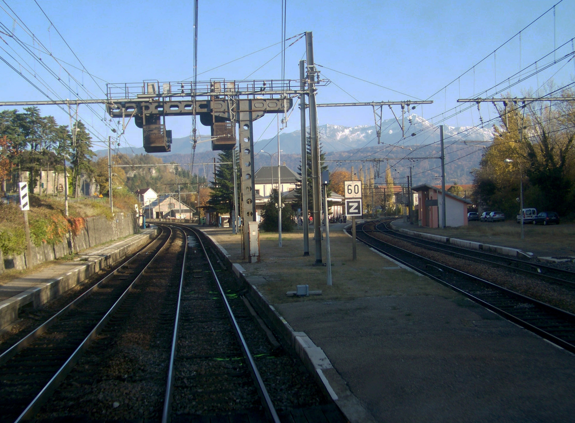 Sight on French city of Montmélian railway station (Savoie) situated on both lines to Modane and Bourg-St-Maurice (left) and Grenoble (right).